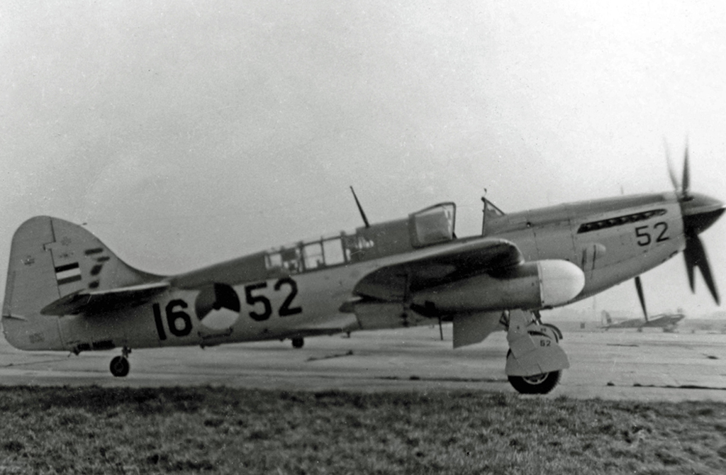 Fairey Firefly FR.4 16-52 of the Netherlands Navy at Manchester (Ringway) Airport